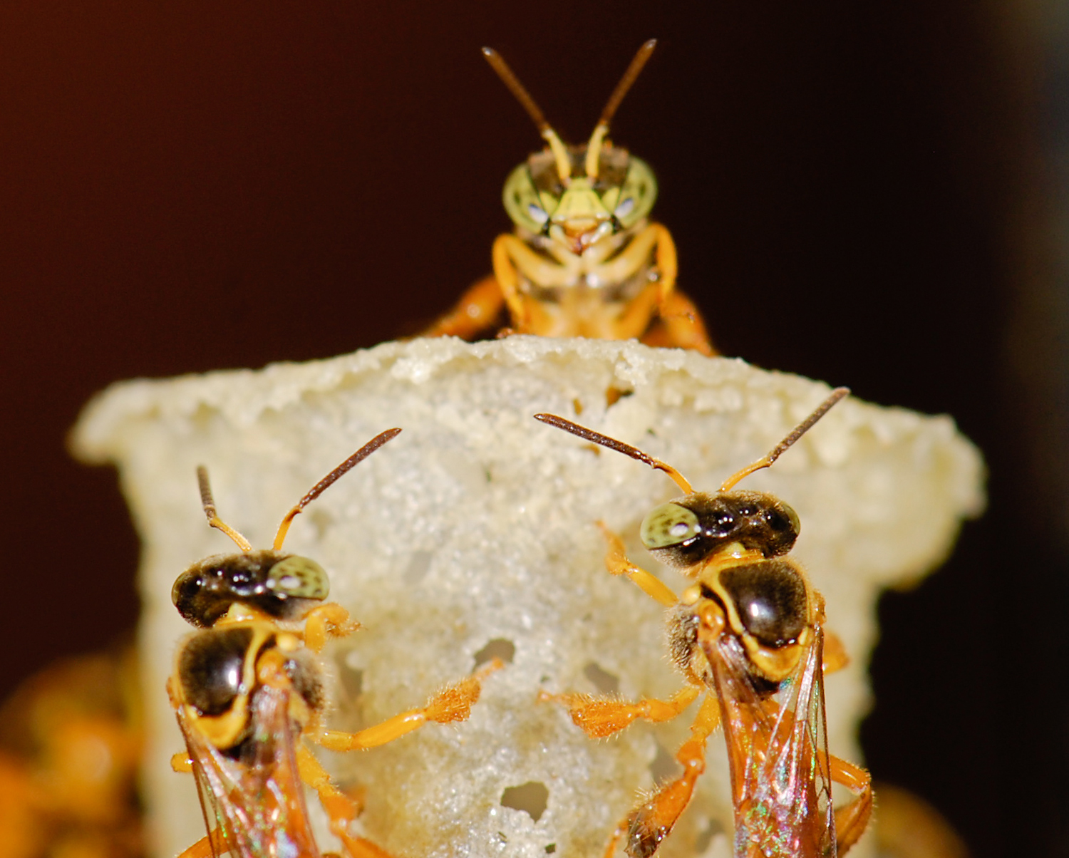 Tetragonisca stingless bees